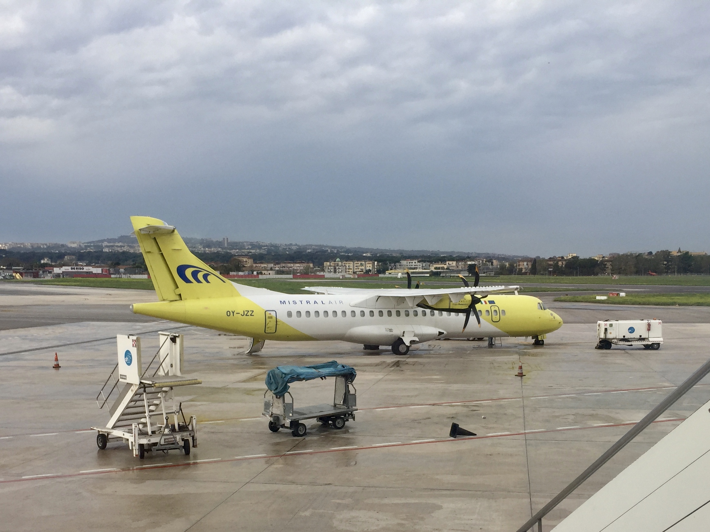 On Saturday 3 November 2018